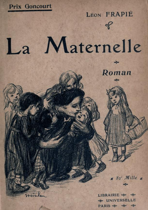 Title page of La Maternelle (1904) by Léon Frapié (1863-1949)